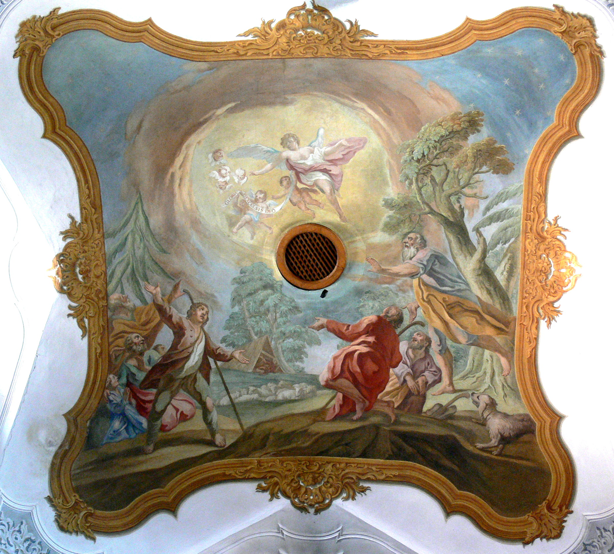 Windberg abbey church ( Lower Bavaria ). Rococo frescos ( 1755 ) at the ceiling by Franz Xaver Merz: Annunciation to the shepherds. Slightly cropped and rotated version of file already at Commons